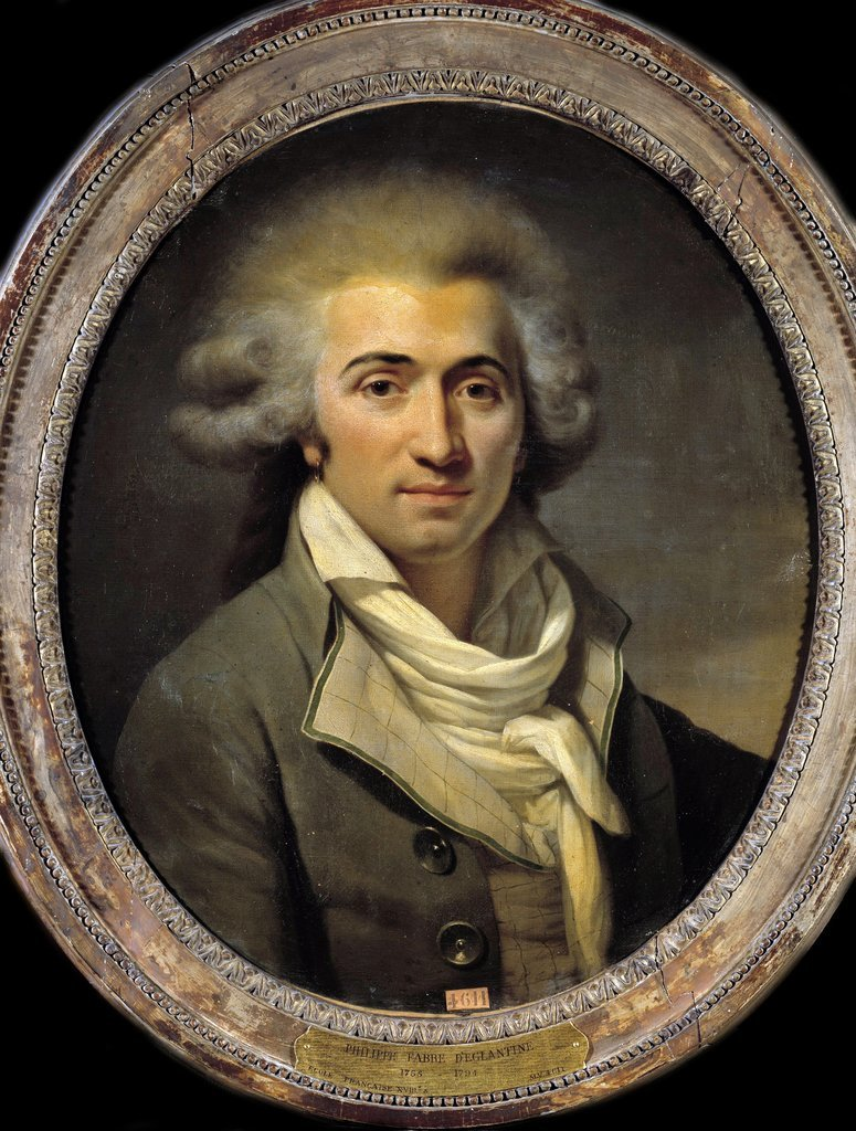 Fabre d'Églantine. Poet and politician of France. Guillotined on 5 April 1794 with Danton, Chabot and Camille Desmoulins.